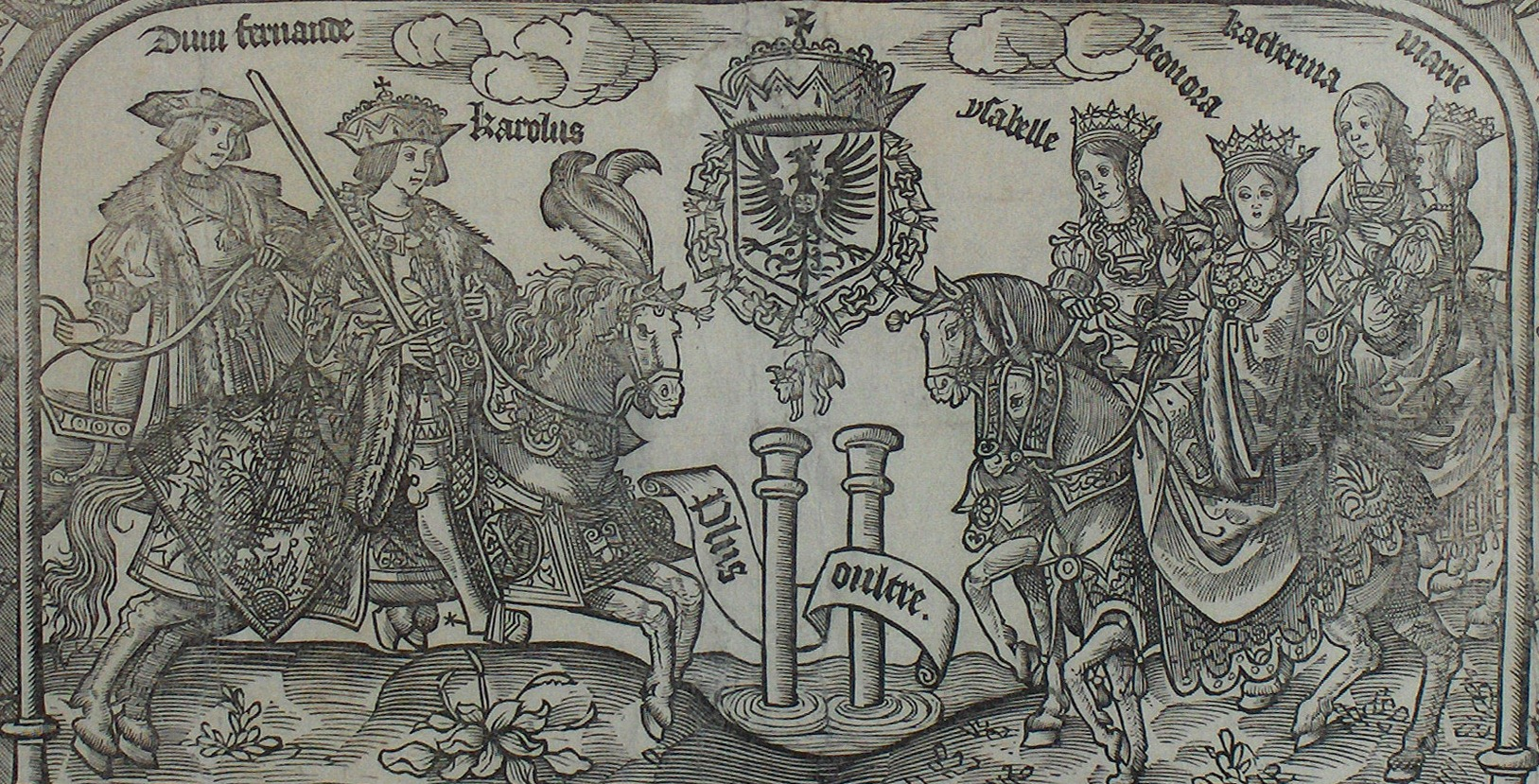 Ferdinand, Charles, Isabella, Eleanor, Catherine, and Mary on horseback.